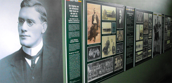 Historical displays at Afrikaanse Hoër Seunskool